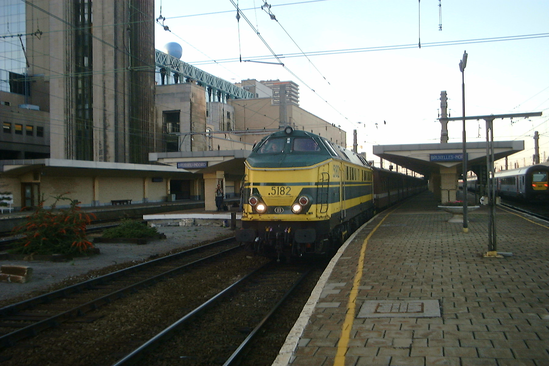 Farewell of Class 51 locomotive